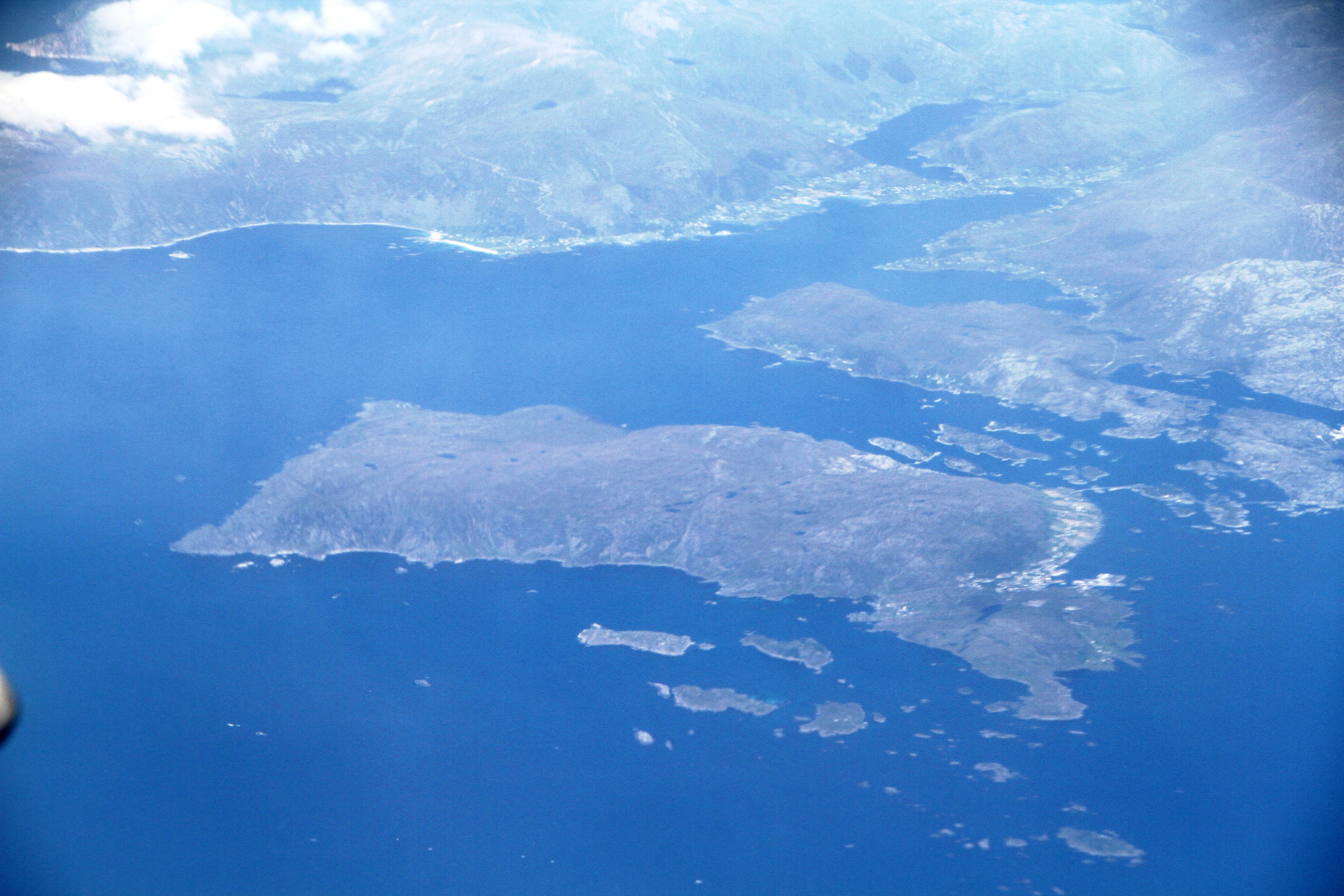 Bremangerlandet peninsula with Frøya island, in the municipality of Bremanger, western Norway